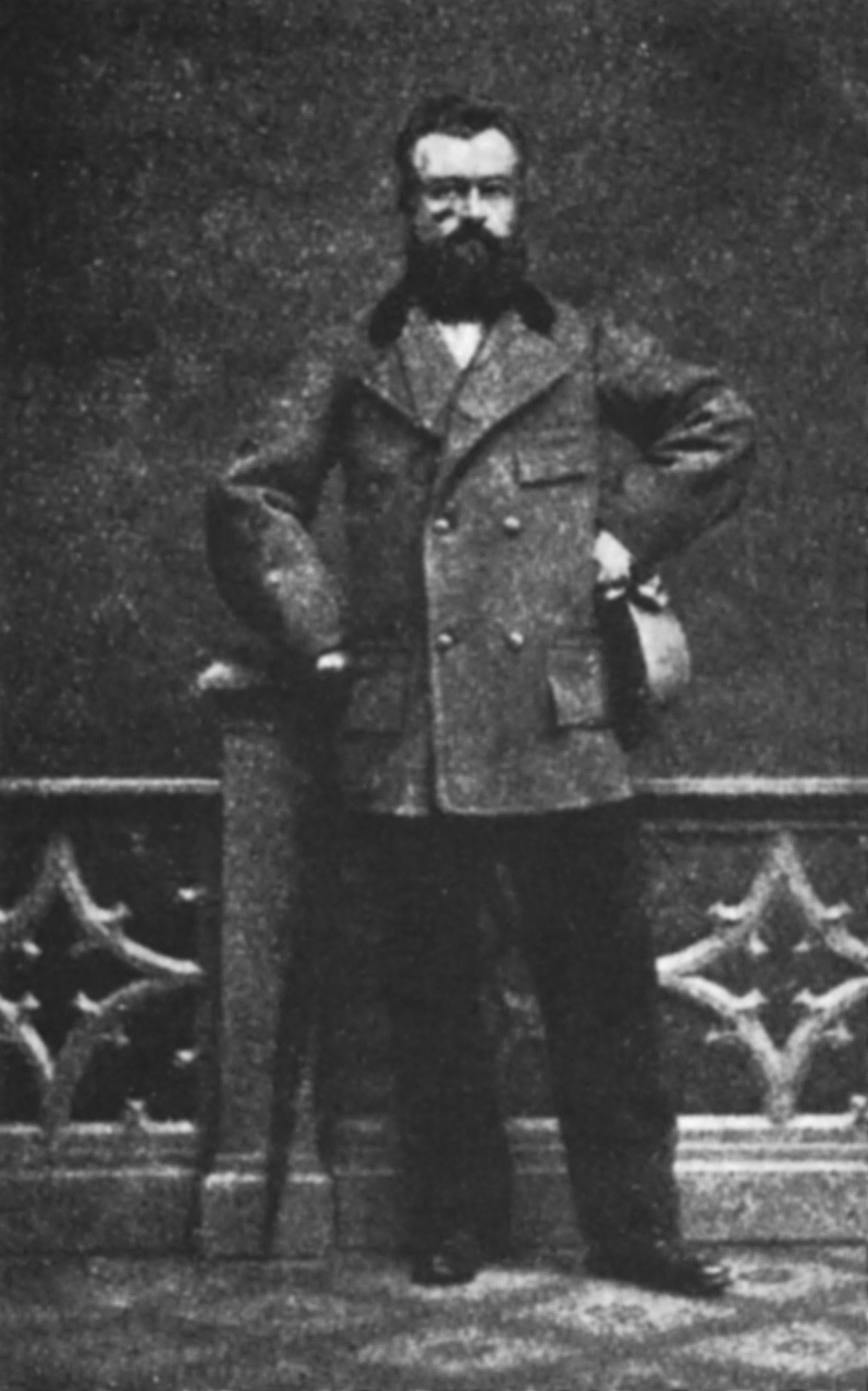 Finnish civil servant and funder of Finnish expeditions to Siberia